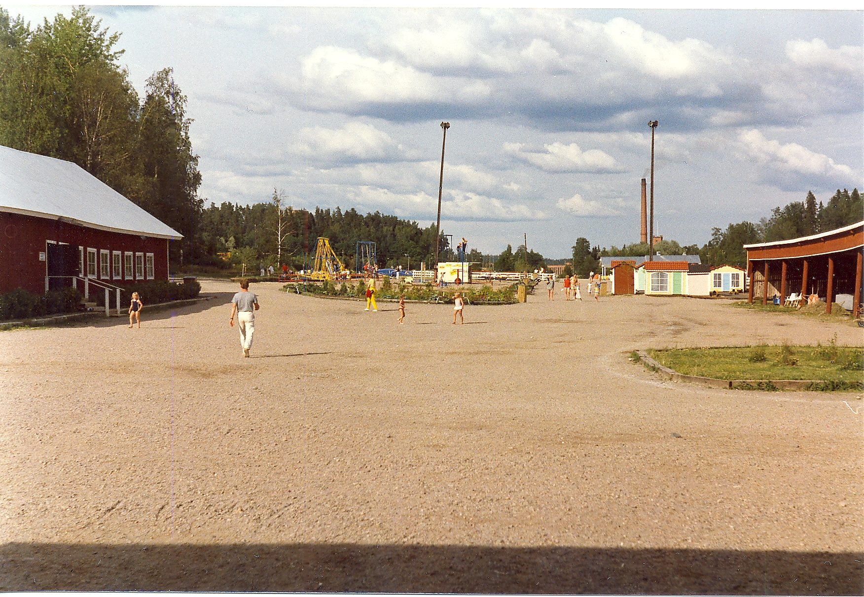 Puuhamaa Amusement park in July 1986